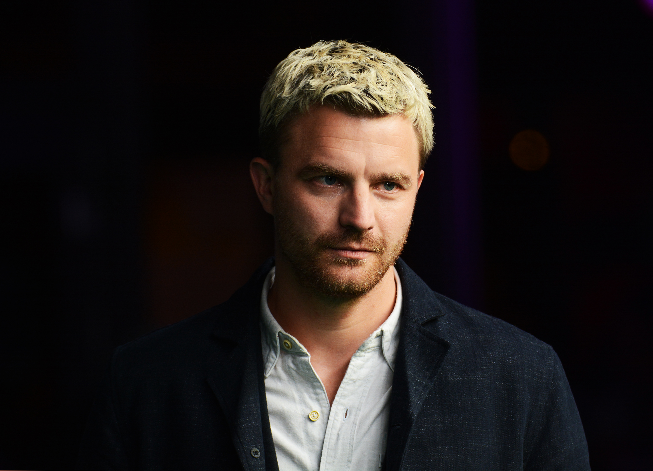 Actor Friedrich Mücke giving interviews together with director Michael Bully Herbig and attends the "Ballon" Special Gala during the 14th Zurich Film Festival on October 4, 2018 in Switzerland.